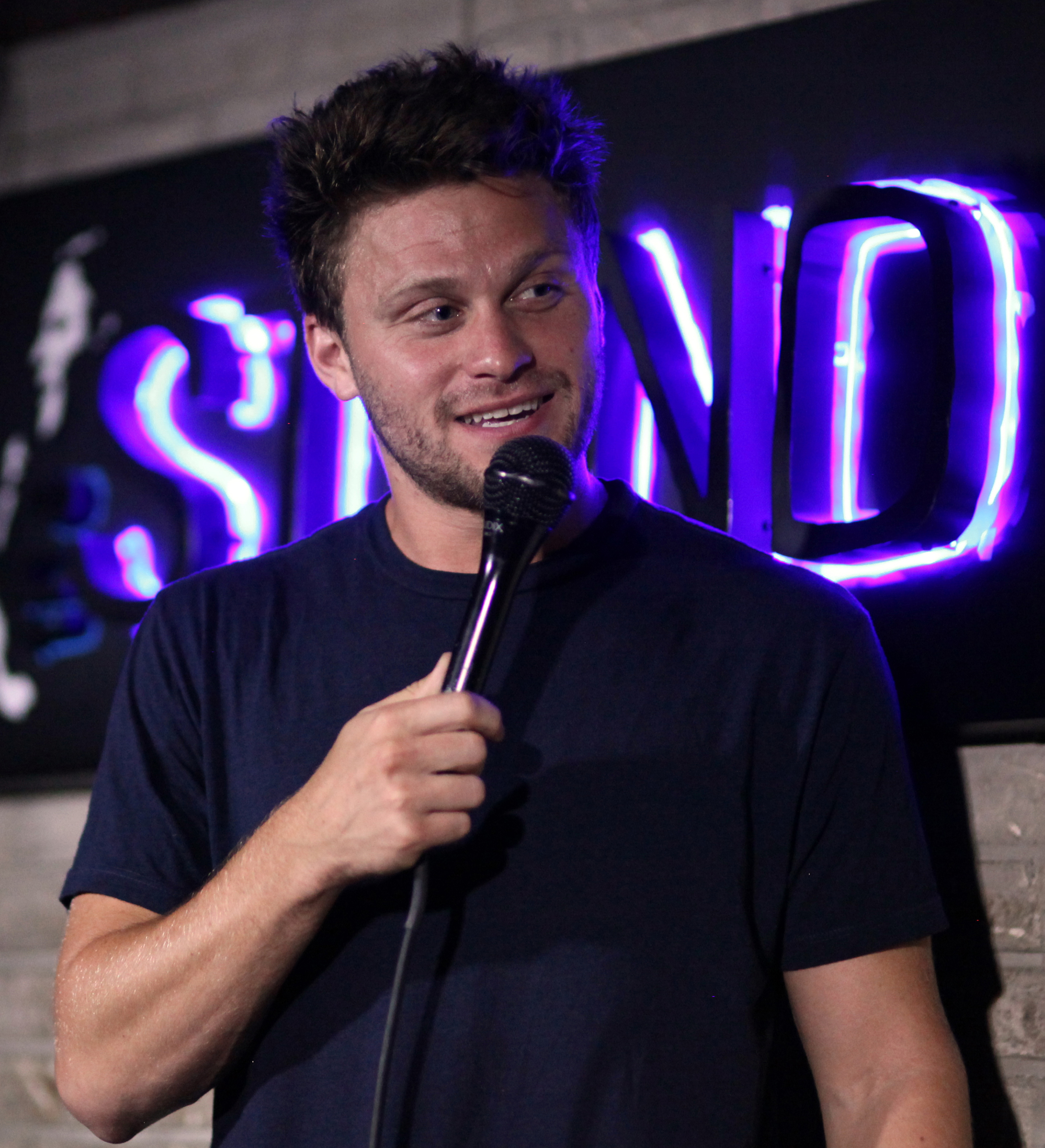 Rudnitsky performing at The Stand in New York City in July 2016.